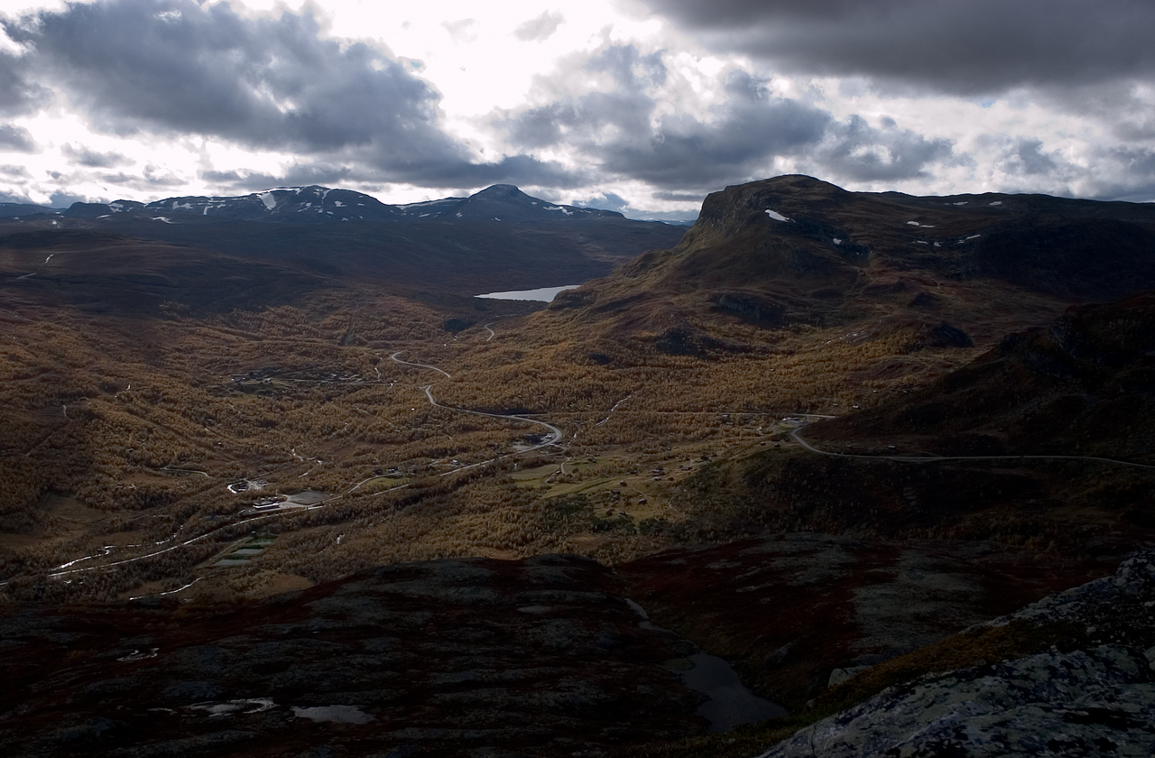 View of Tyinkrysset. Skørsnøse at 1450 meters with Suletinden (1780 m. on the border between Vang and Lærdal muncipalities) in the far distance. The road Riksveg 53 comes in from the right, E16 from the left. The road contiues as E16 going west by the lake called Otrøvatnet/Støgofjorden